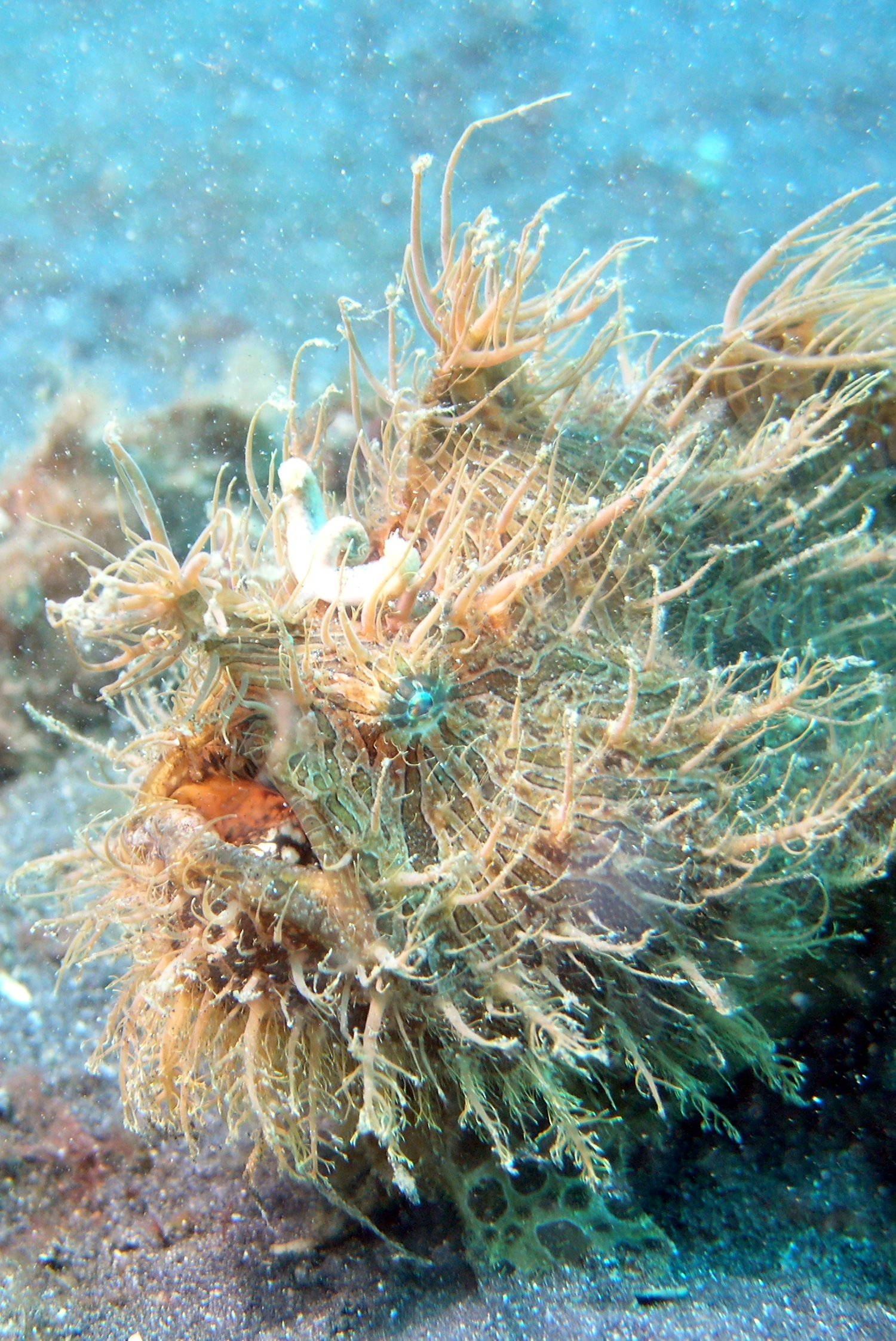 Image of Striated frogfish. Antennarius striatus. Taken at Lembeh Straits, North Sulawesi, Indonesia.